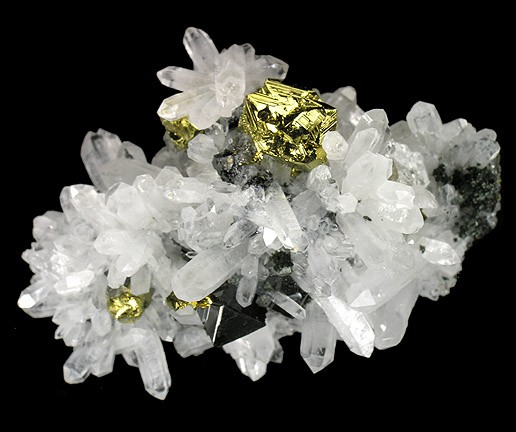 Chalcopyrite, Quartz Locality: Camp Bird Mine, Ouray, Sneffels District (Mount Sneffels District), Ouray County, Colorado, USA (Locality at ) Size: 5.2 x 3.6 x 2.7 cm. The Camp Bird mine near Ouray, Colorado is one of the most classic of all the Colorado ore body localities. It is celebrated for its superb Chalcopyrite specimens, exhibiting some of the finest twins for the species extant. This specimen features a few superb, sharp, splendent, metallic, brassy-gold colored twinned crystals of Chalcopyrite which are associated with sharp, jet-black Sphalerite crystals sitting atop contrasting white, prismatic Quartz crystals. From the 600’ Stope, 2100’ Level. Ex. Richard Kosnar Collection.